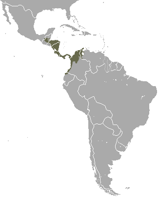 Northern Naked-tailed Armadillo (Cabassous centralis) range